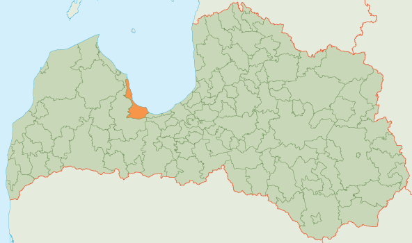 Map of Engure